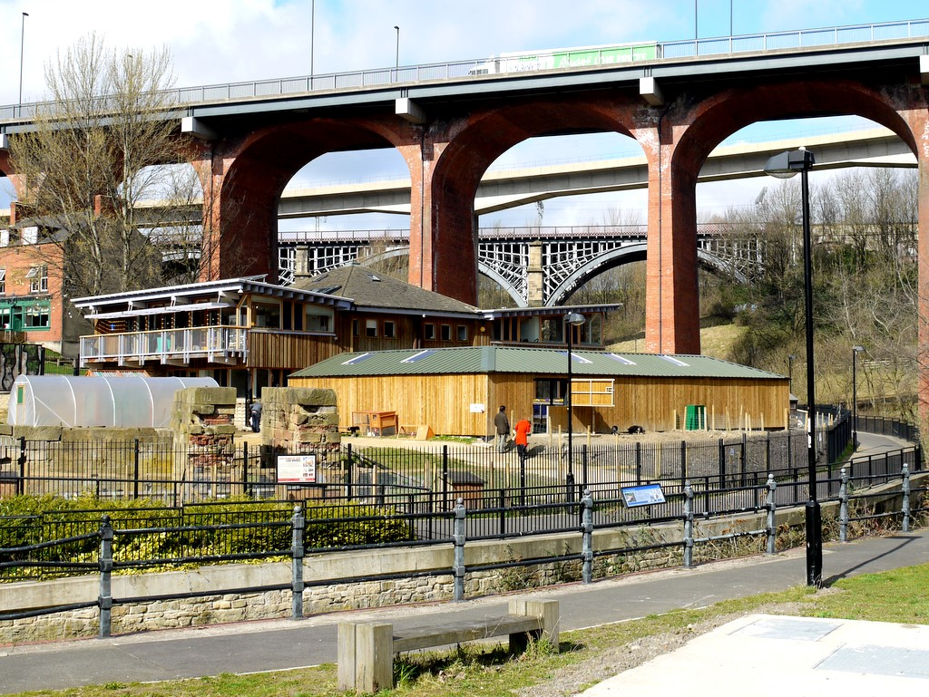 Ouseburn Farm and the bridges The Byker Road Bridge, Metro Bridge and Railway Bridge span the Ouseburn valley behind.